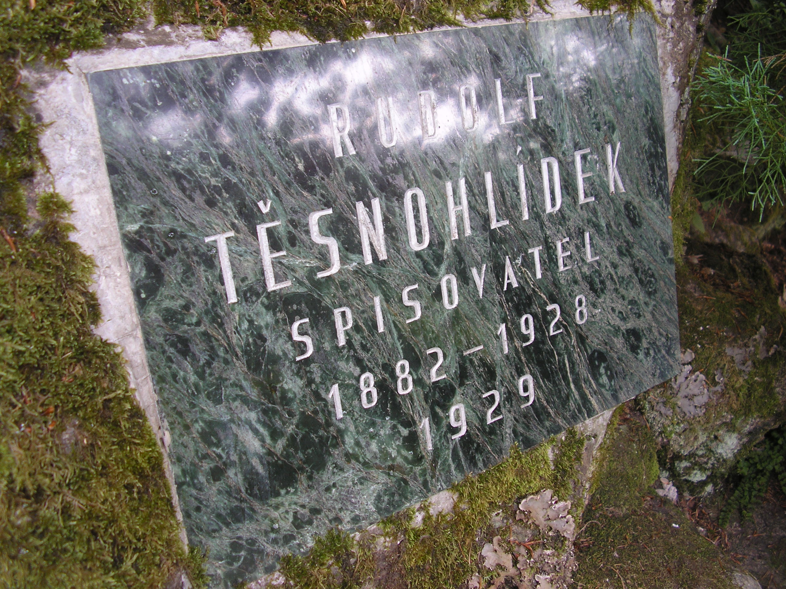 Memorial plaque of Rudolf Těsnohlídek, near Bílovice nad Svitavou, Czech Republic